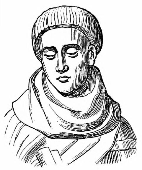 Portrait of Richard Neville, Earl of Salisbury, after his effigy in the Earl of Warwick's tomb, reproduced after C. Stothard